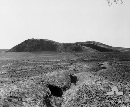 Ottoman Empire: Palestine : Tel el Fara and trenches.